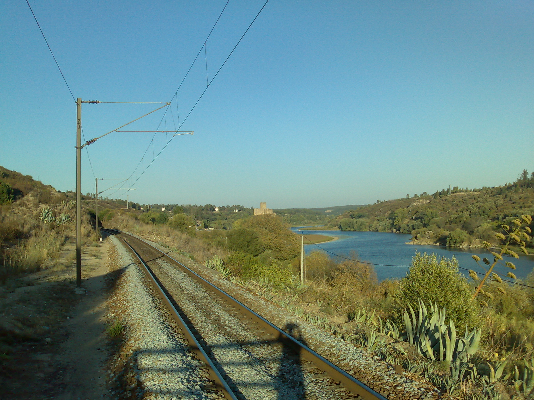 Tancos train station.